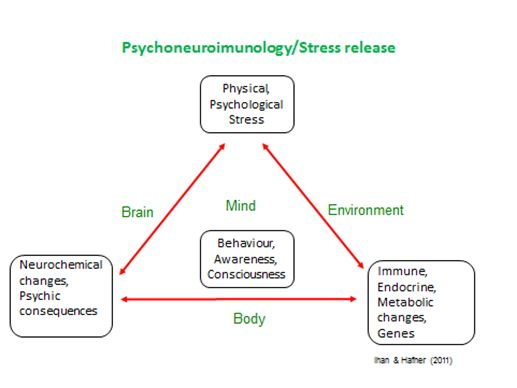 Interaction between psychological processes and the nervous and immune systems of the human body